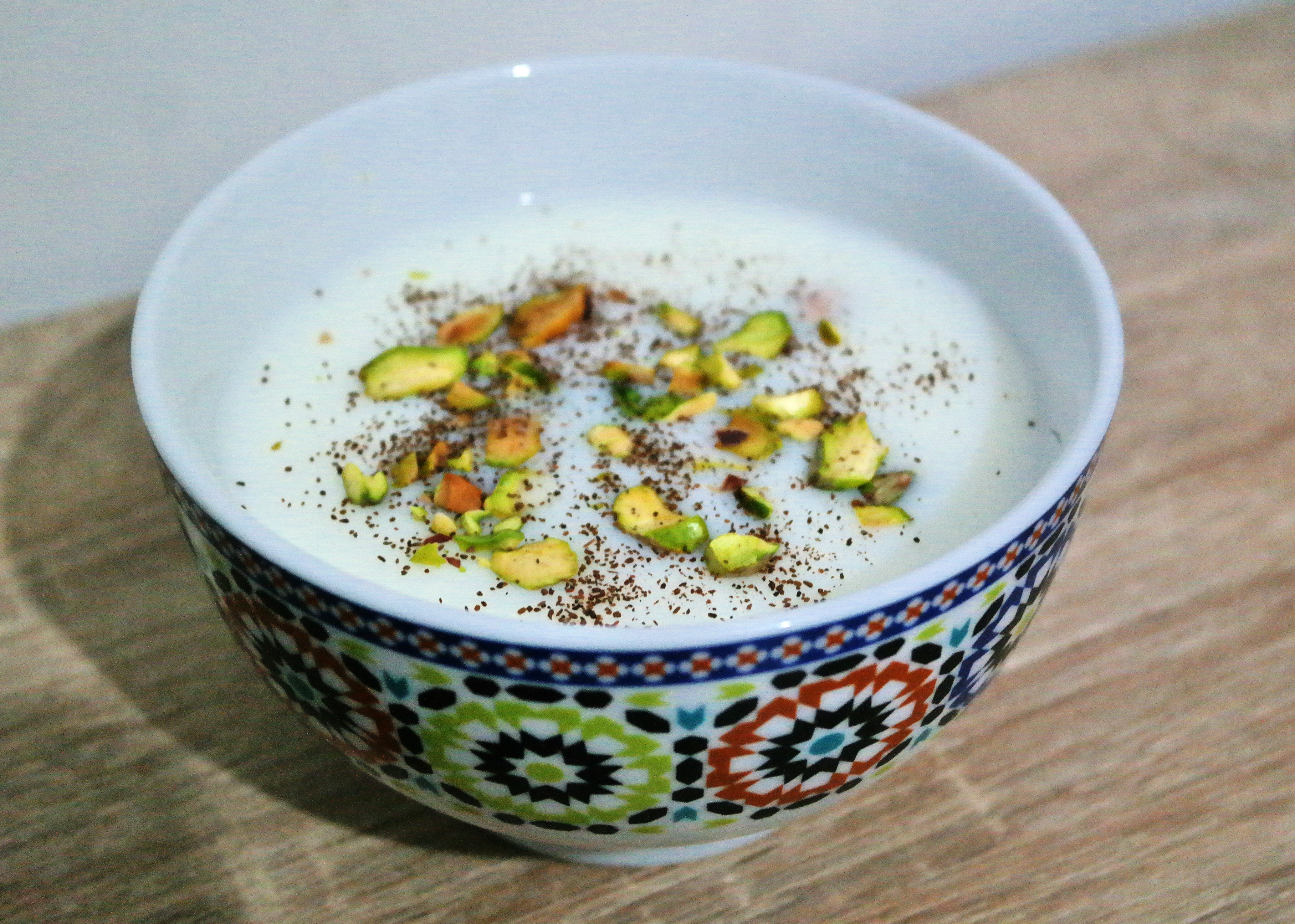 A bowl containing Sahlab (Salep) with crushed pistachio and cinnamon